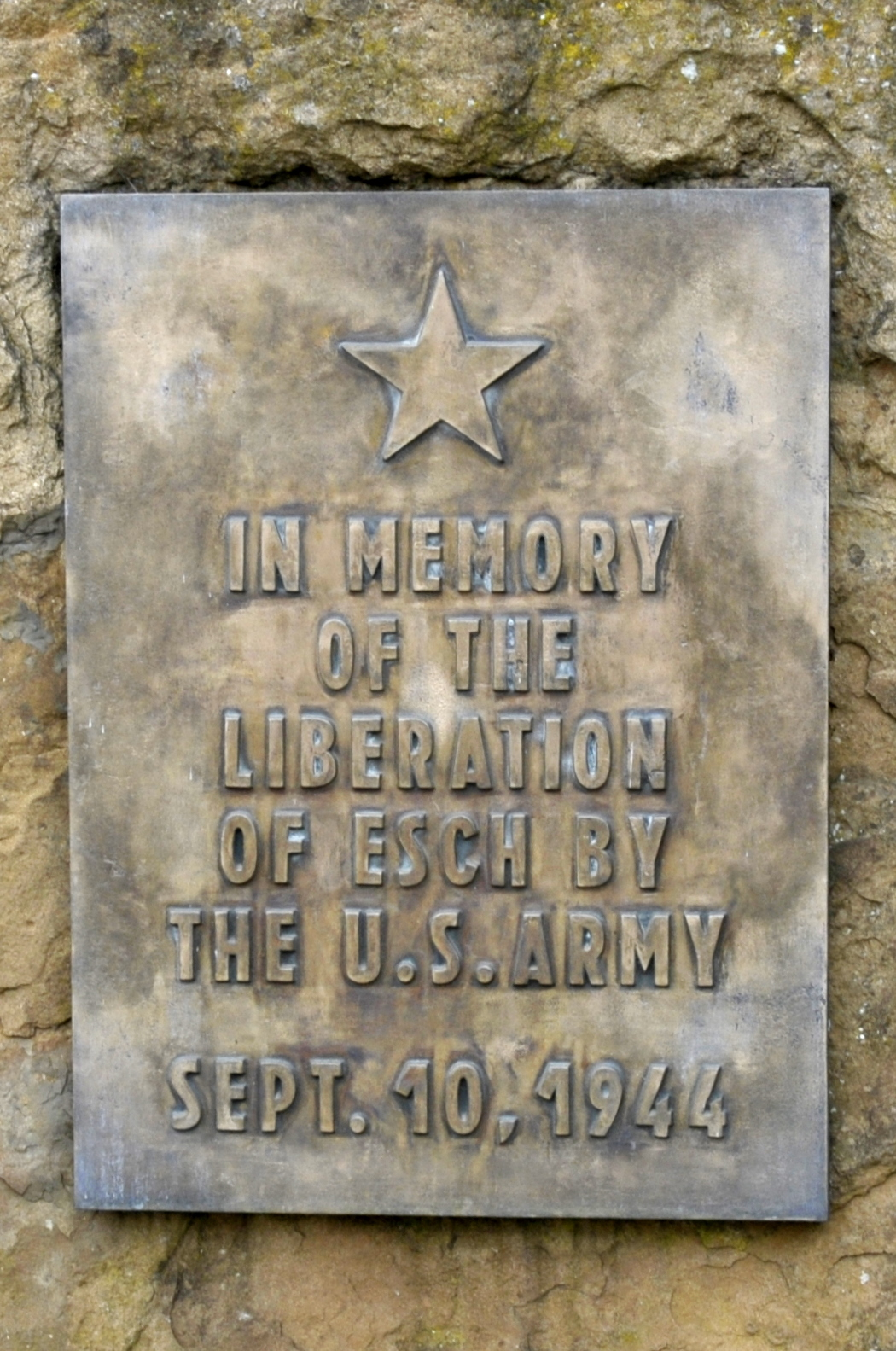 U.S. Army Liberation Memorial in Esch Alzette